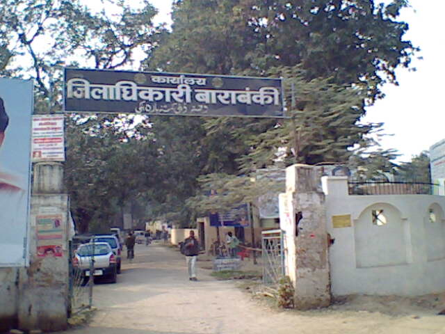 This is picture of Office of District Magistrate/Collector.